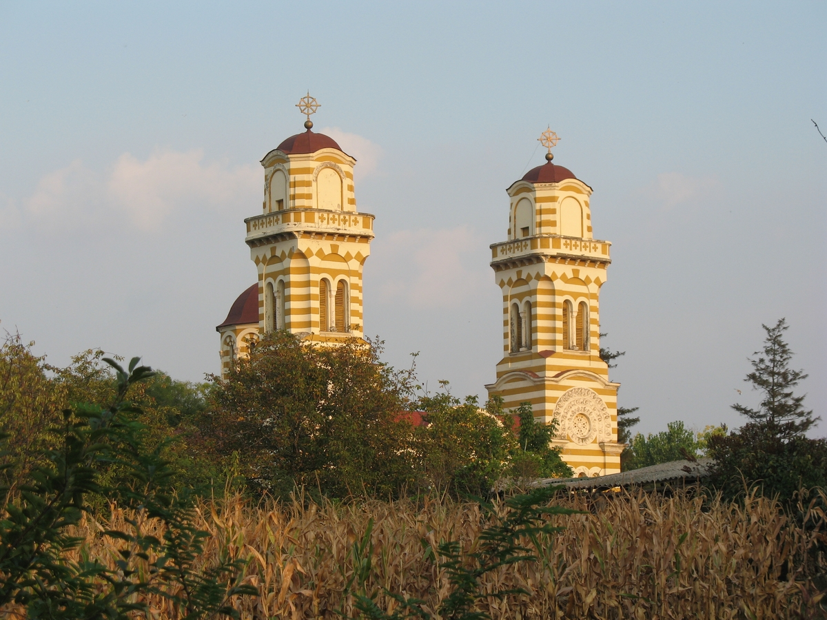 Orthodox church in Ovča, near Belgrade, Serbia.